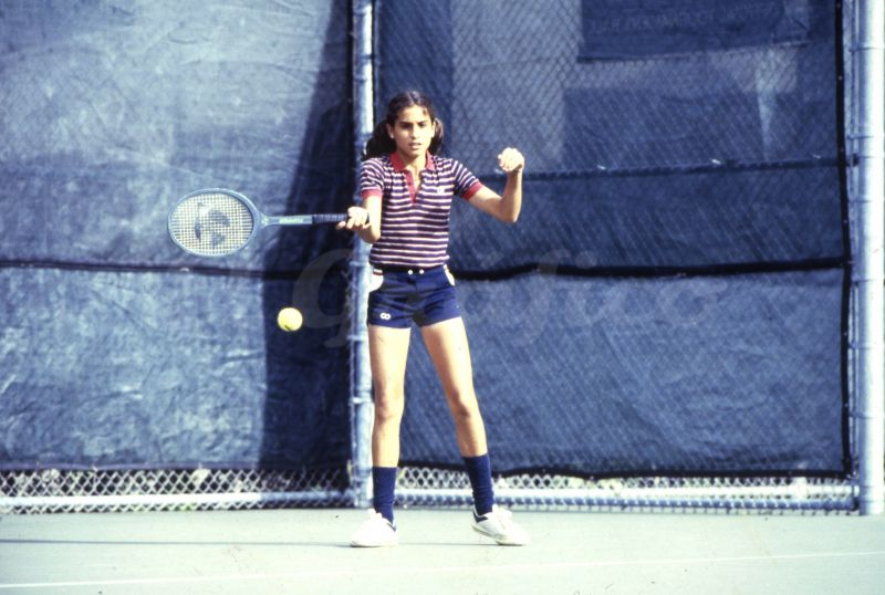 Gabriela Sabatini in 1982.